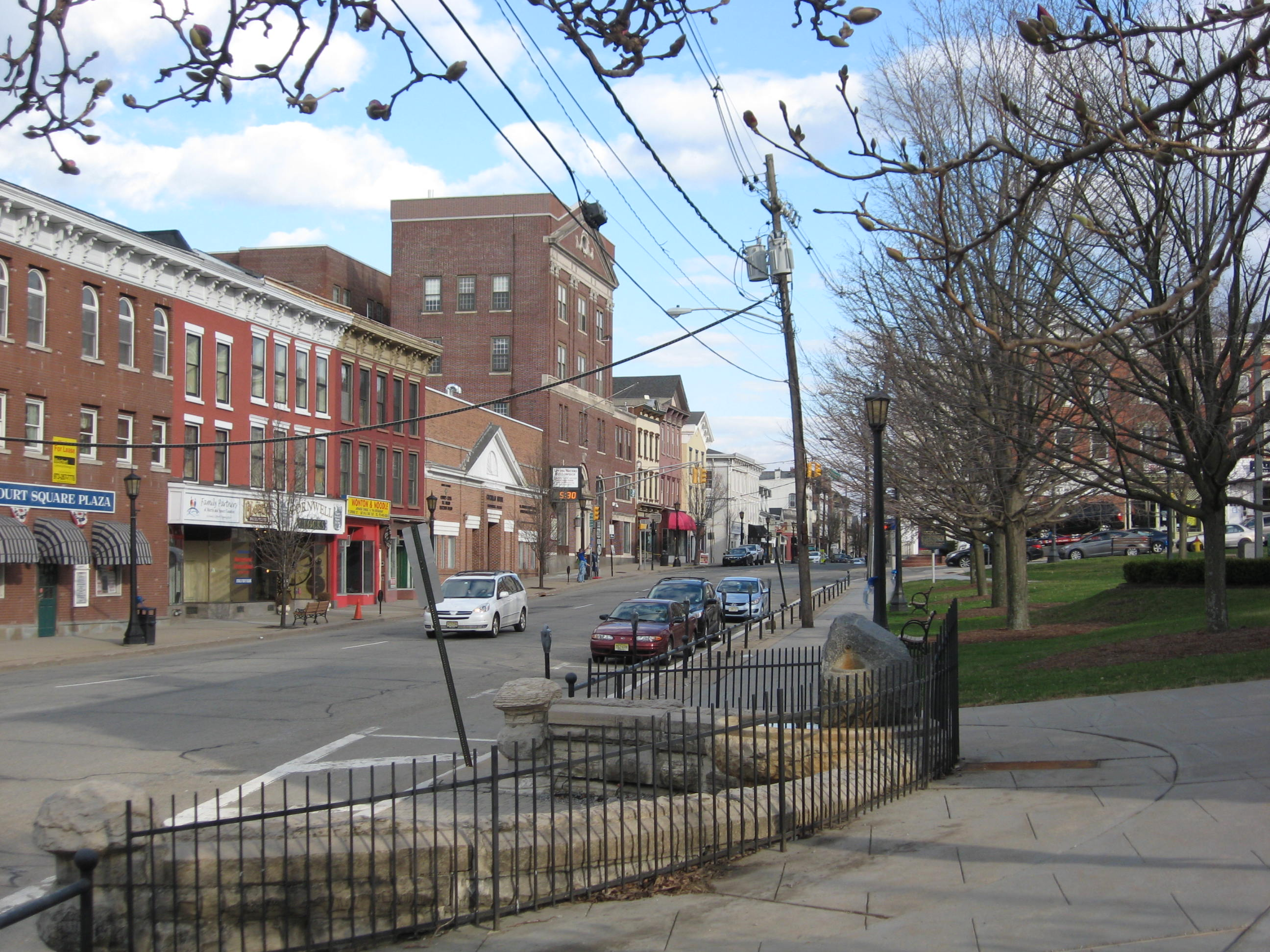 'Spring Street is Newton, New Jersey s main commercial street with a vibrant theatre offering musical, comedic, and dramatic performances; retail store fronts; professional offices; and restaurants, as seen from the Newton Town Green.